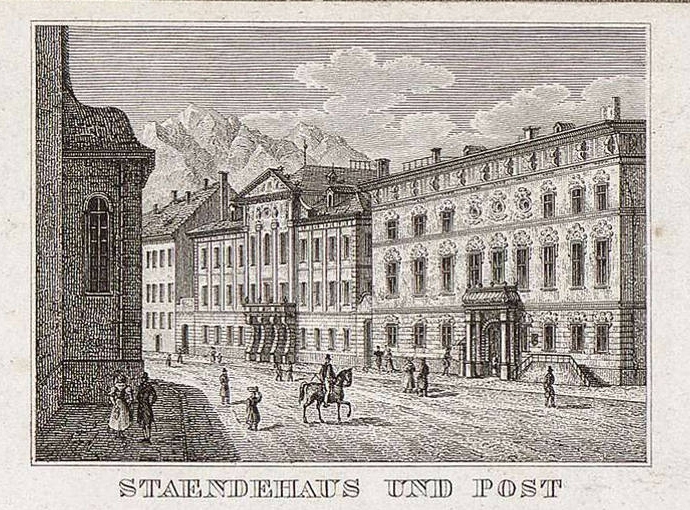 Map of Imperial and Royal Provincial Capital Innsbruck and surroundings: detail Maria-Theresien-Straße, Altes Landhaus, Taxispalais